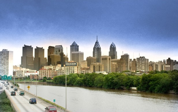 Westbound I-76 (Philadelphia).